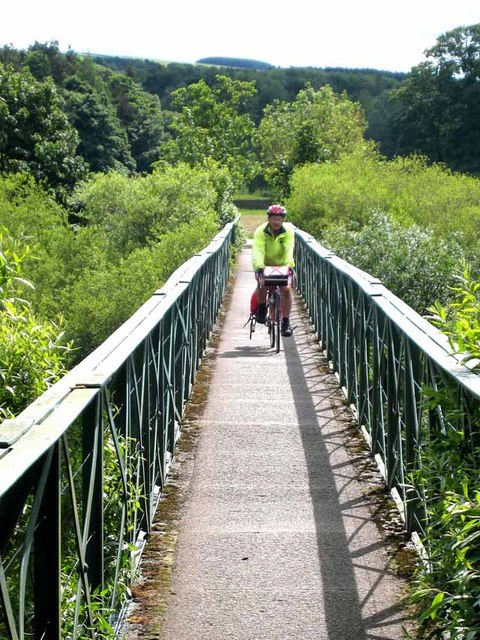 Footbridge at Bardon Mill Cyclist crossing the South Tyne at Bardon Mill. The bridge forms a valuable linke for cyclists coming from the east.